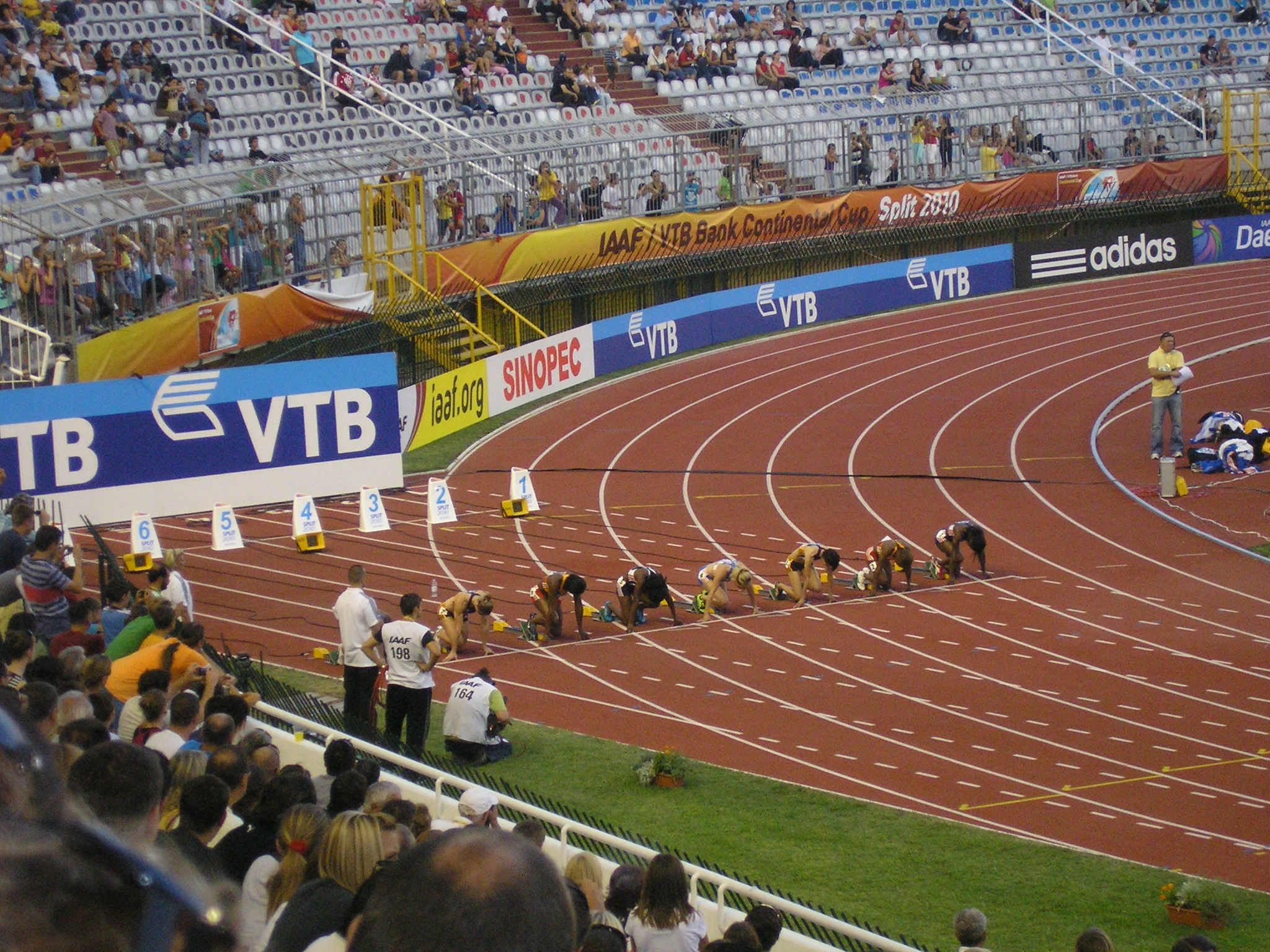 100 metres race start (women)